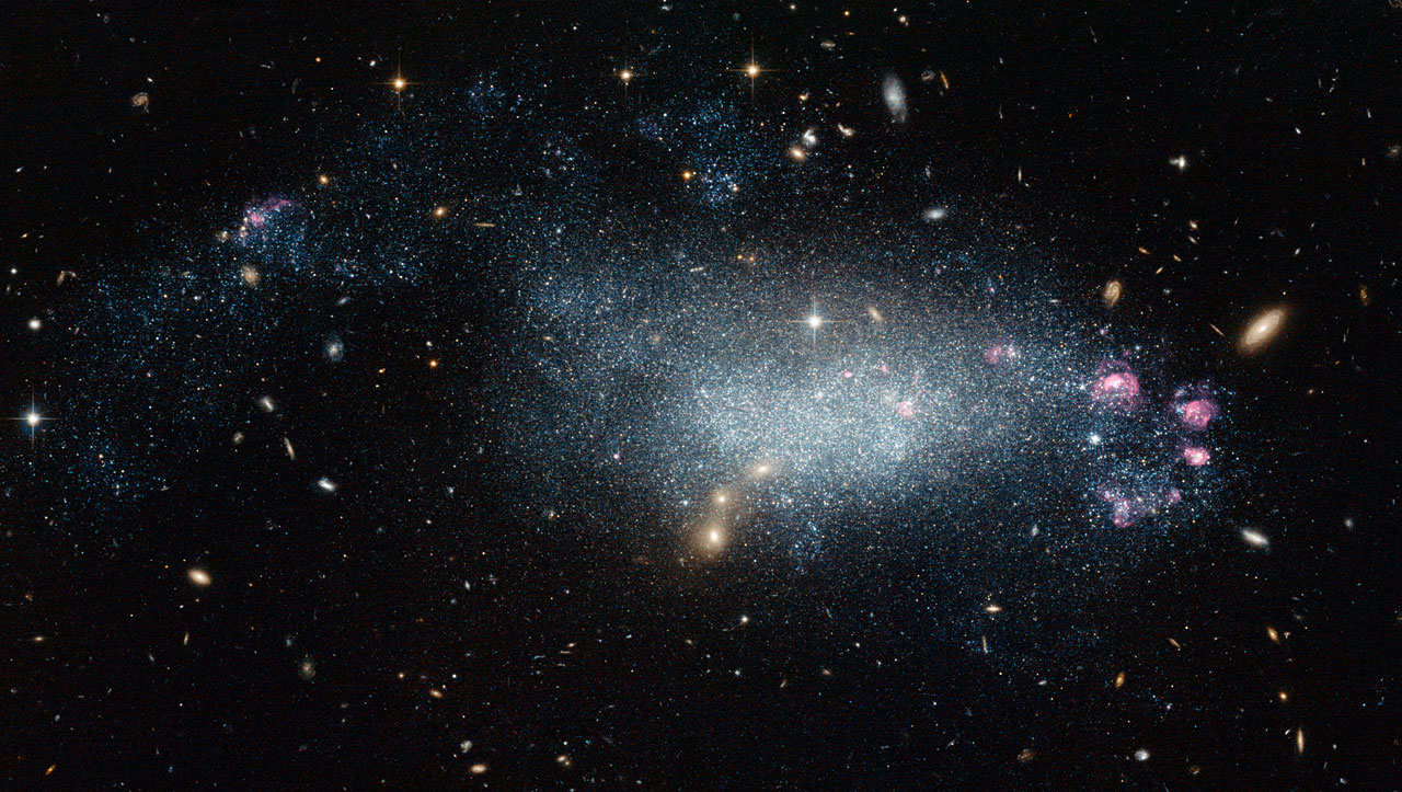 This image from the NASA/ESA Hubble Space Telescope shows a cosmic oddity, dwarf galaxy DDO 68. This ragged collection of stars and gas clouds looks at first glance like a recently-formed galaxy in our own cosmic neighbourhood. But, is it really as young as it looks?